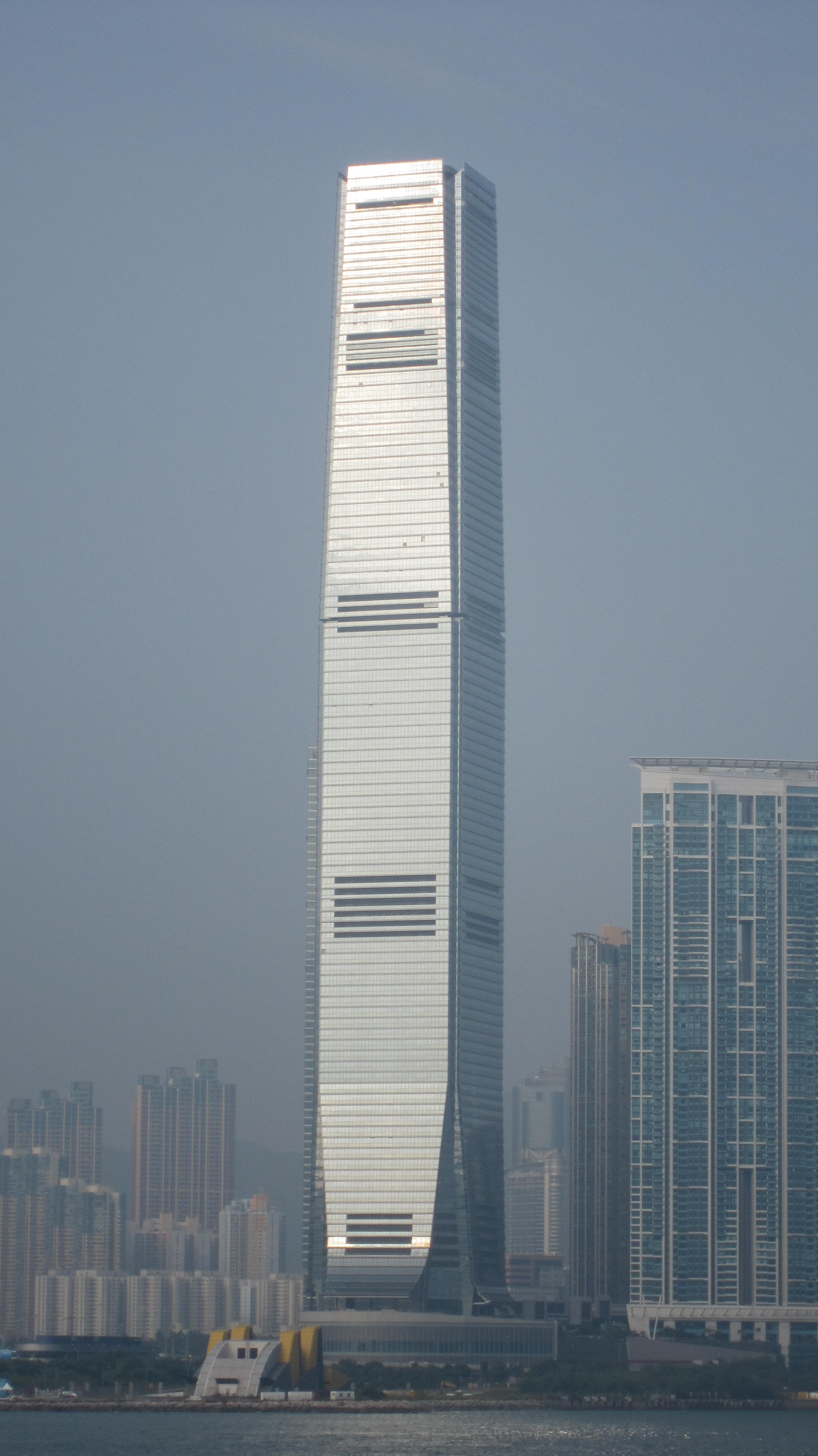 International Commerce Centre 中文（香港）: 環球貿易廣場